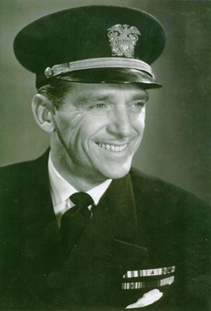 Photo of Commander Douglas Fairbanks, Jr. from an official U.S. Navy web site. The material on the web site was adapted from: "Commander Douglas Elton Fairbanks, Jr., U.S.N.R.," produced by the Navy Office of Information, dated 2 September 1948, Biographies, 20th Century, Navy Department Library.